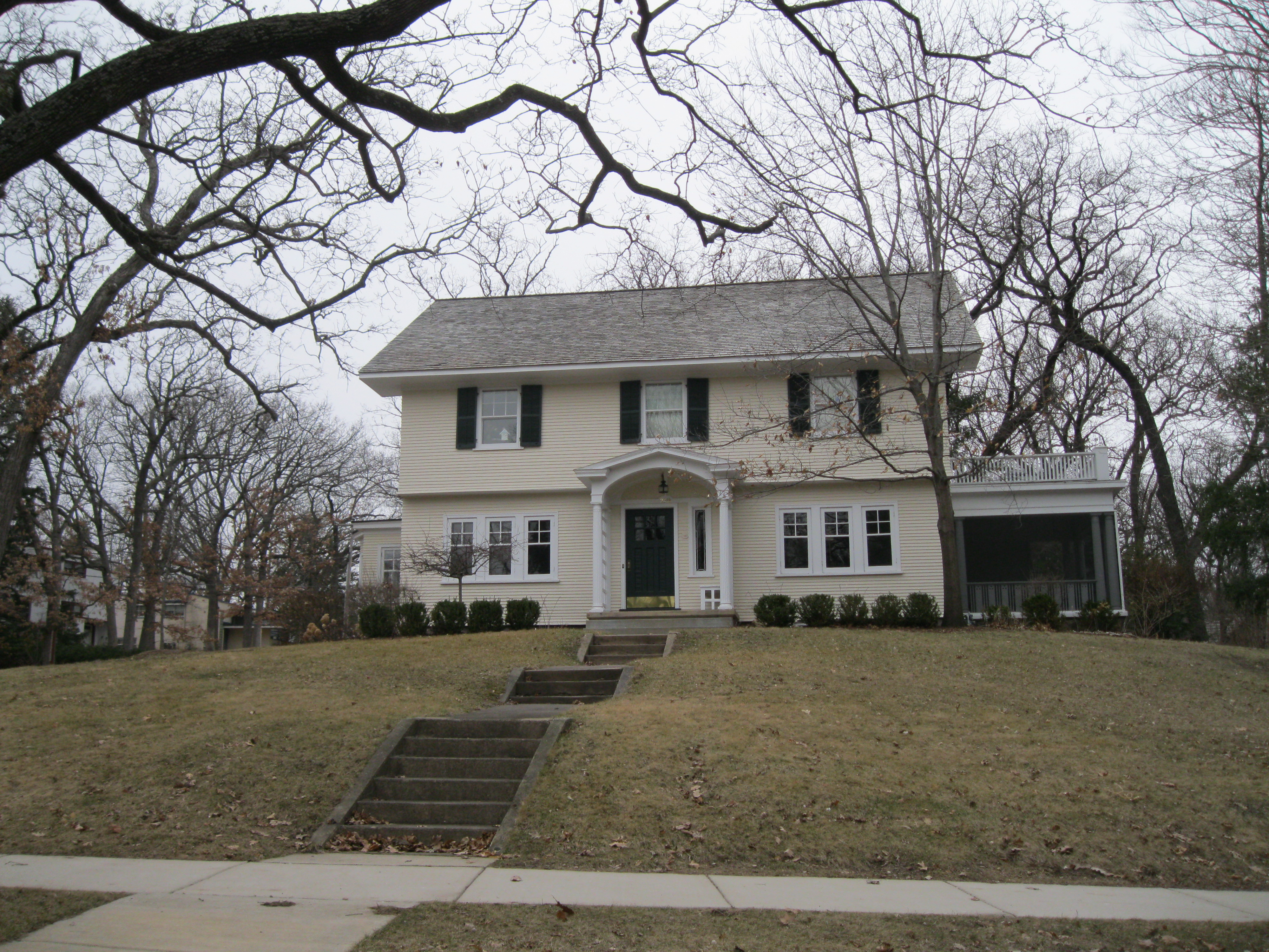 House at 2816 Columbia Road in the College Hills Historic District in Shorewood Hills, Wisconsin.